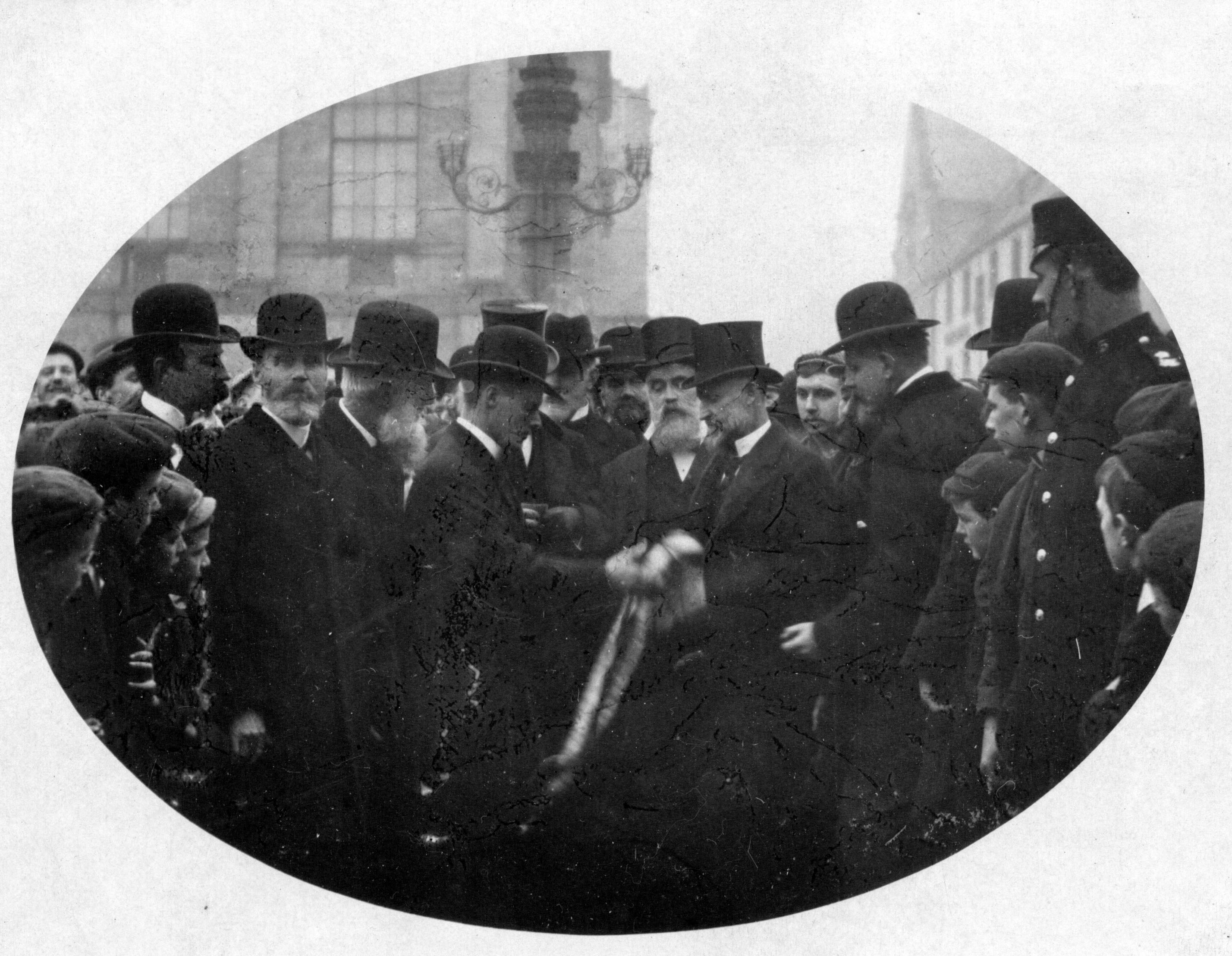 This is the traditional game of Handba played in Jedburgh streets in 1901. They are thought to be dressed in black because of the death of Queen Victoria on 22 Jan of that year. Guess at 1 March.